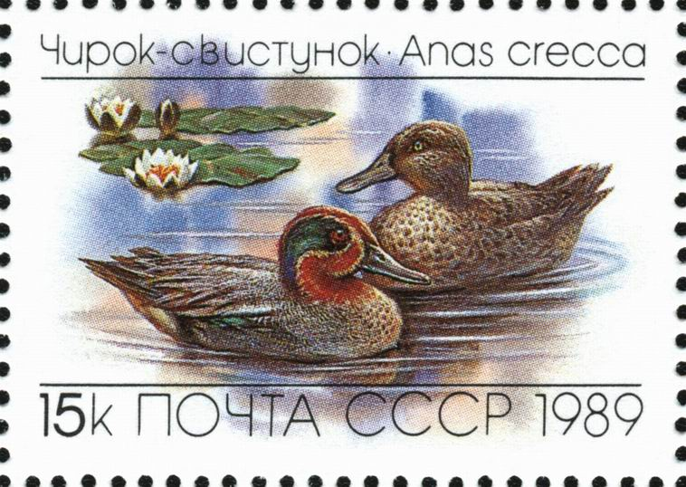 A 1989 USSR stamp, depicting two ducks (common Teal, Anas crecca: male (front left) and female (back right).